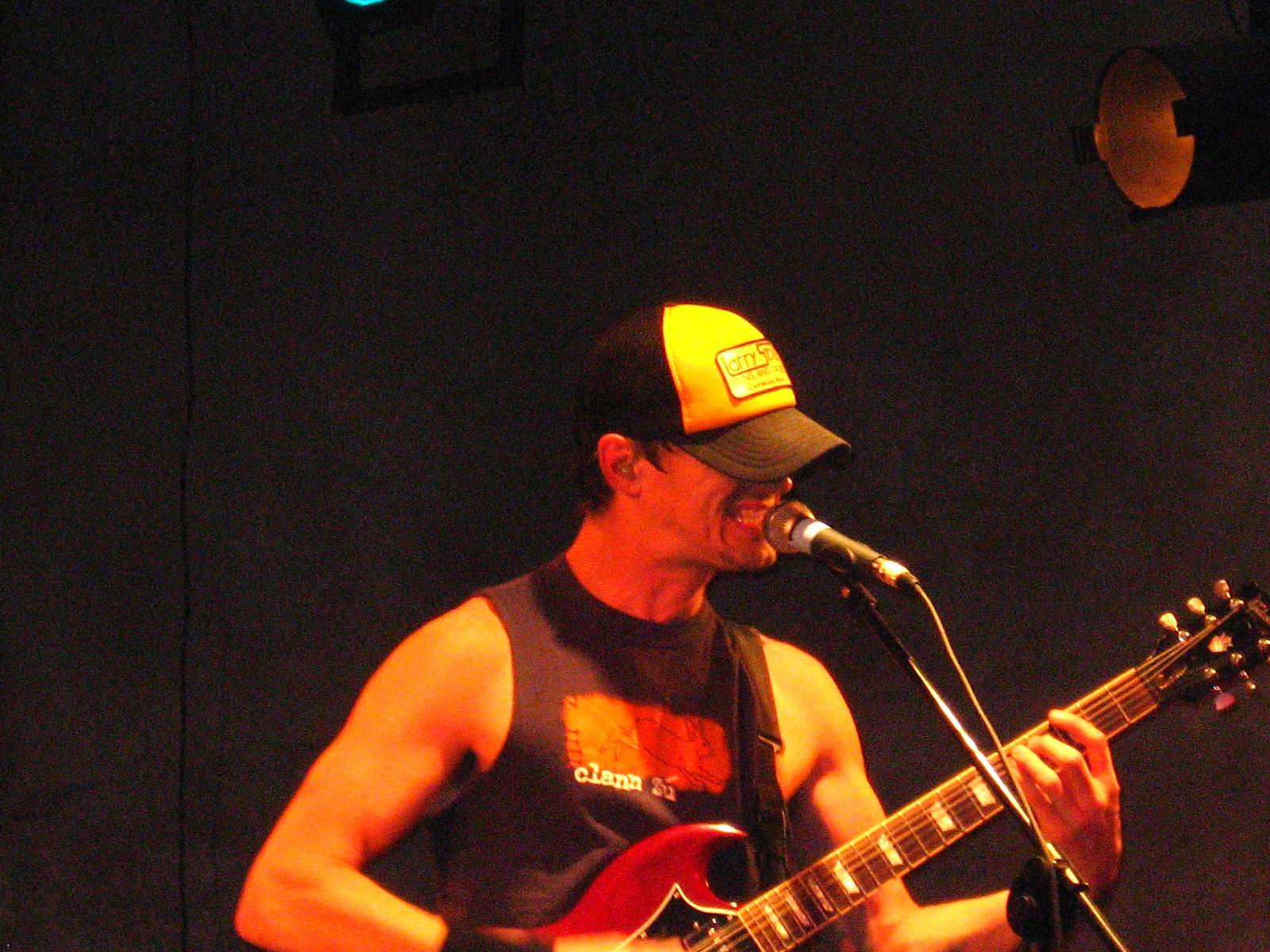 Chris Hannah performing with Propagandhi at Galpon Victor Jara in Santiago-Chile.